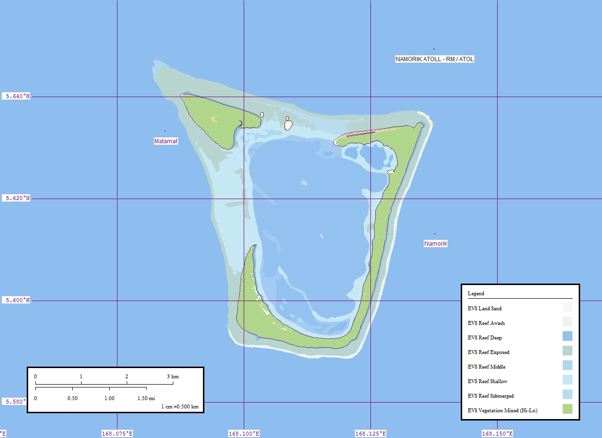 Island map created using Landsat ETM+ Imagery (N-03-05_2000) and Marplot Mapping Software